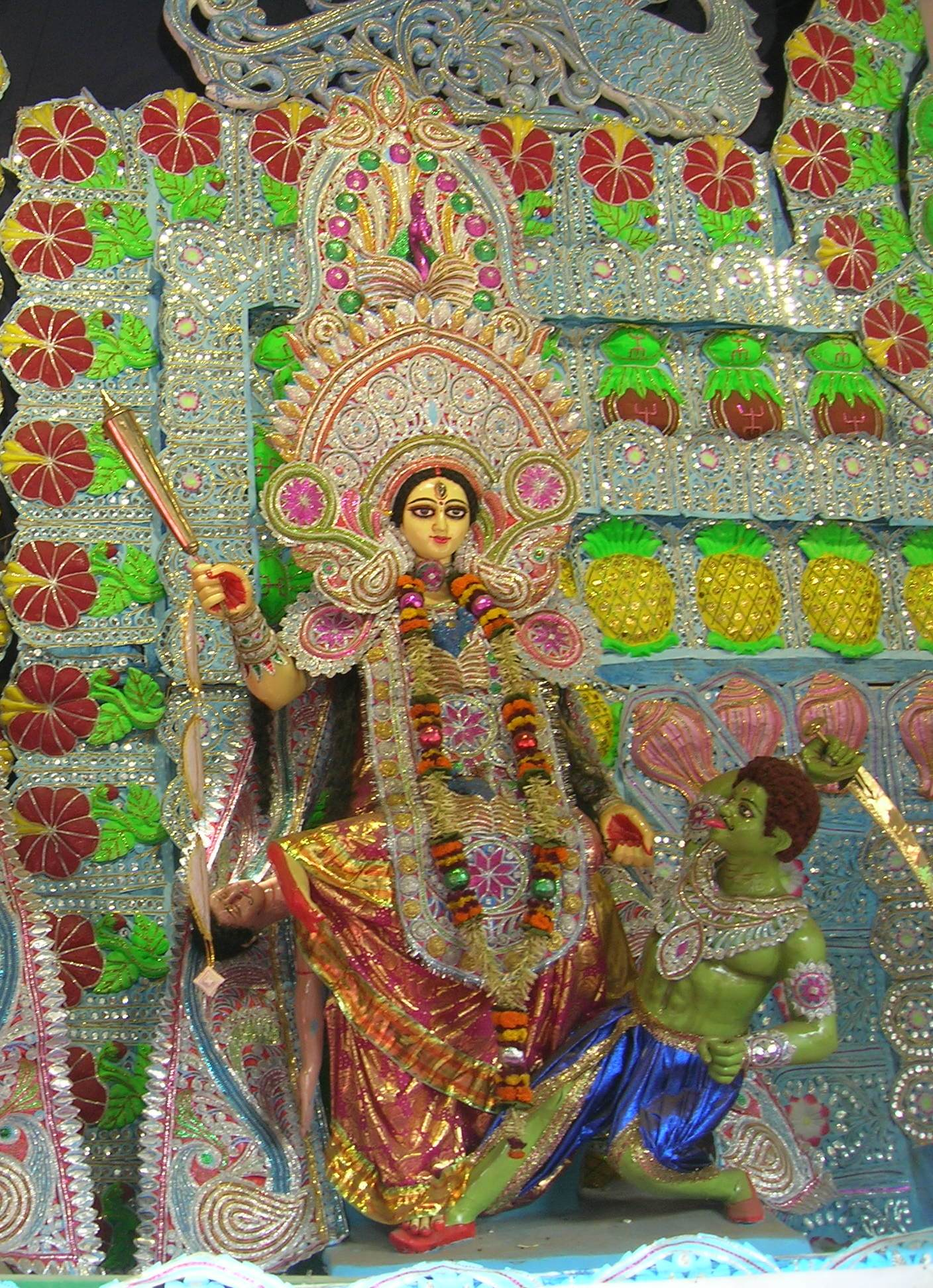 Bagalamukhi at Janbajar Sammilito Kali Puja Samiti pandal, Kolkata.